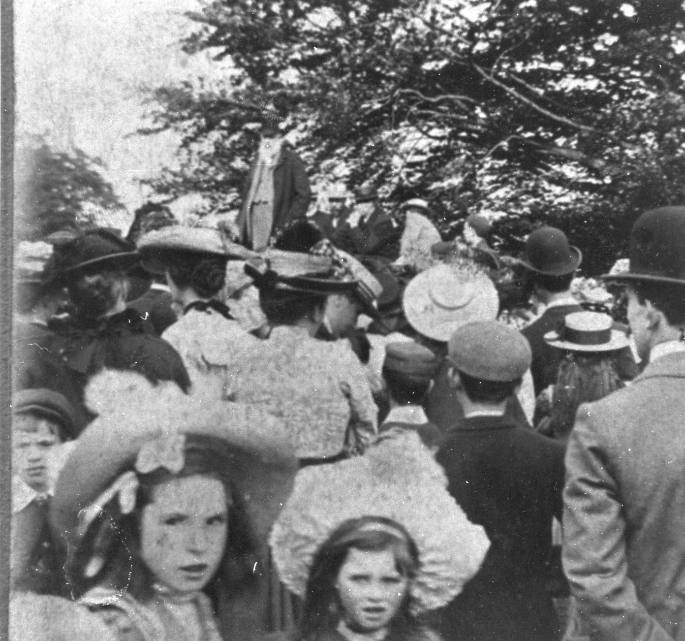 Sir Wilfrid Lawson addressing a political meeting in Cumberland circa 1860